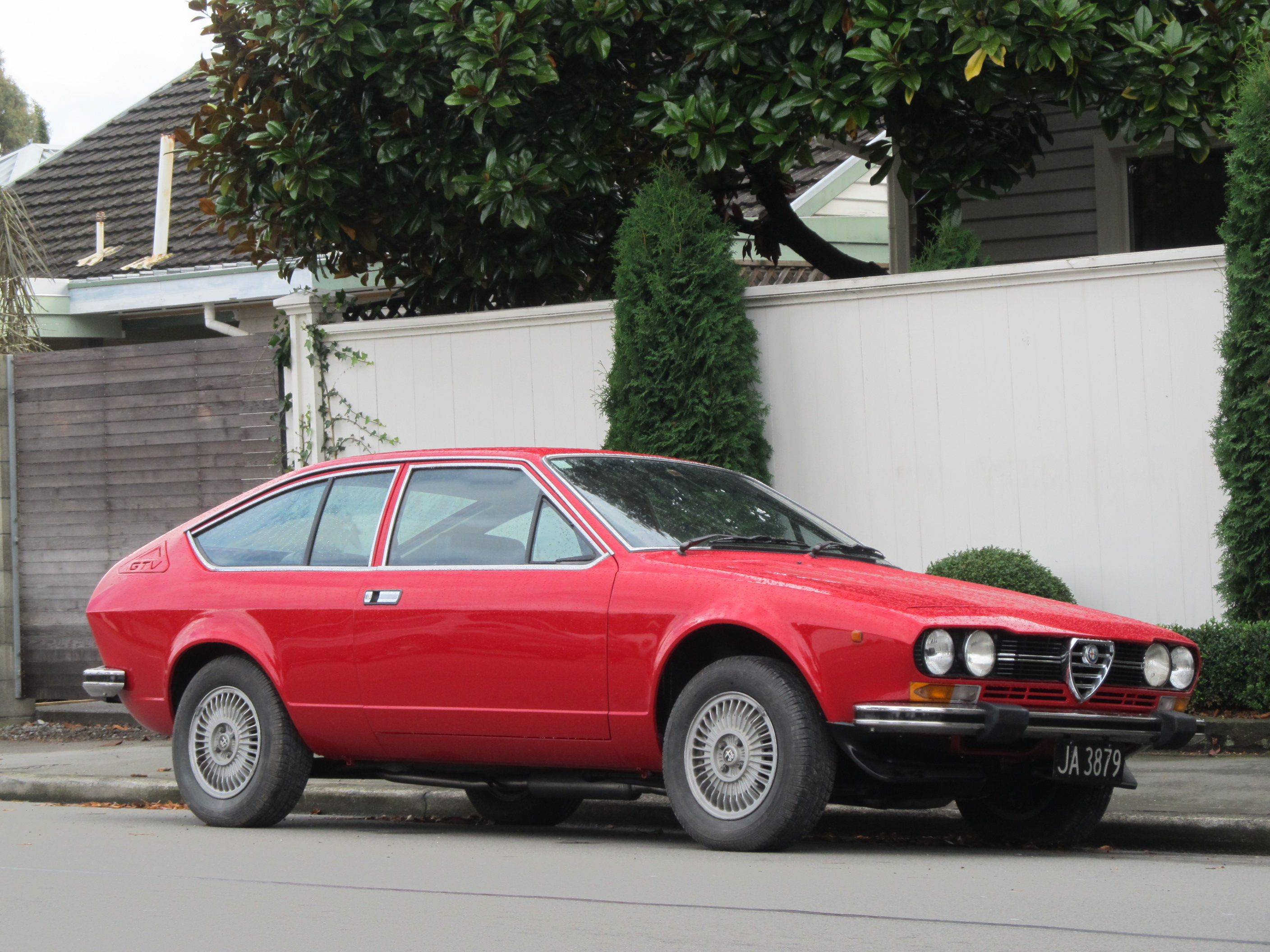 JA3879 A very, very clean GTV here, and spotted in a rather well-off part of Christchurch, Merivale can be good for exotic/old European car spots. These are lovely, and something I envisage myself owning someday. This was actually parked just a few spaces down from a late 1980s Alfa, would anyone like to hazard a guess at what it was??